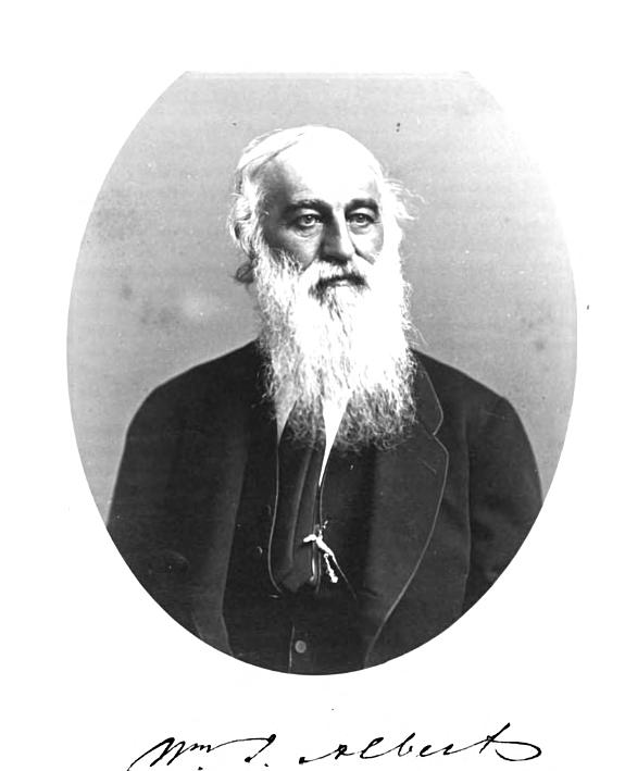 Congessman William J. Albert of Baltimore, Maryland